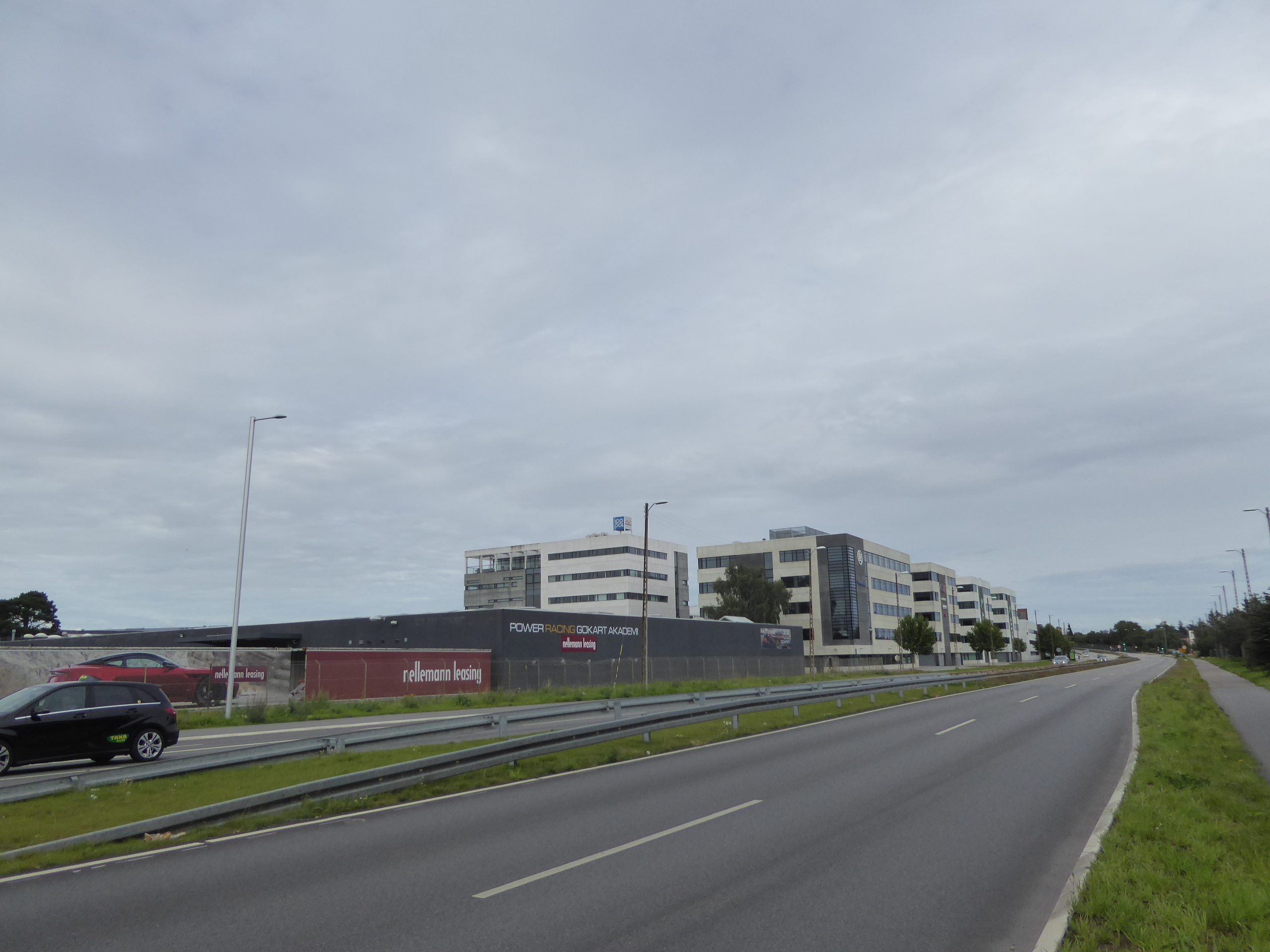 The road Herlev Ringvej at Lyskær in Copenhagen. When Hovedstadens Letbane opens in 2025 it will have at station in the middle of the road.